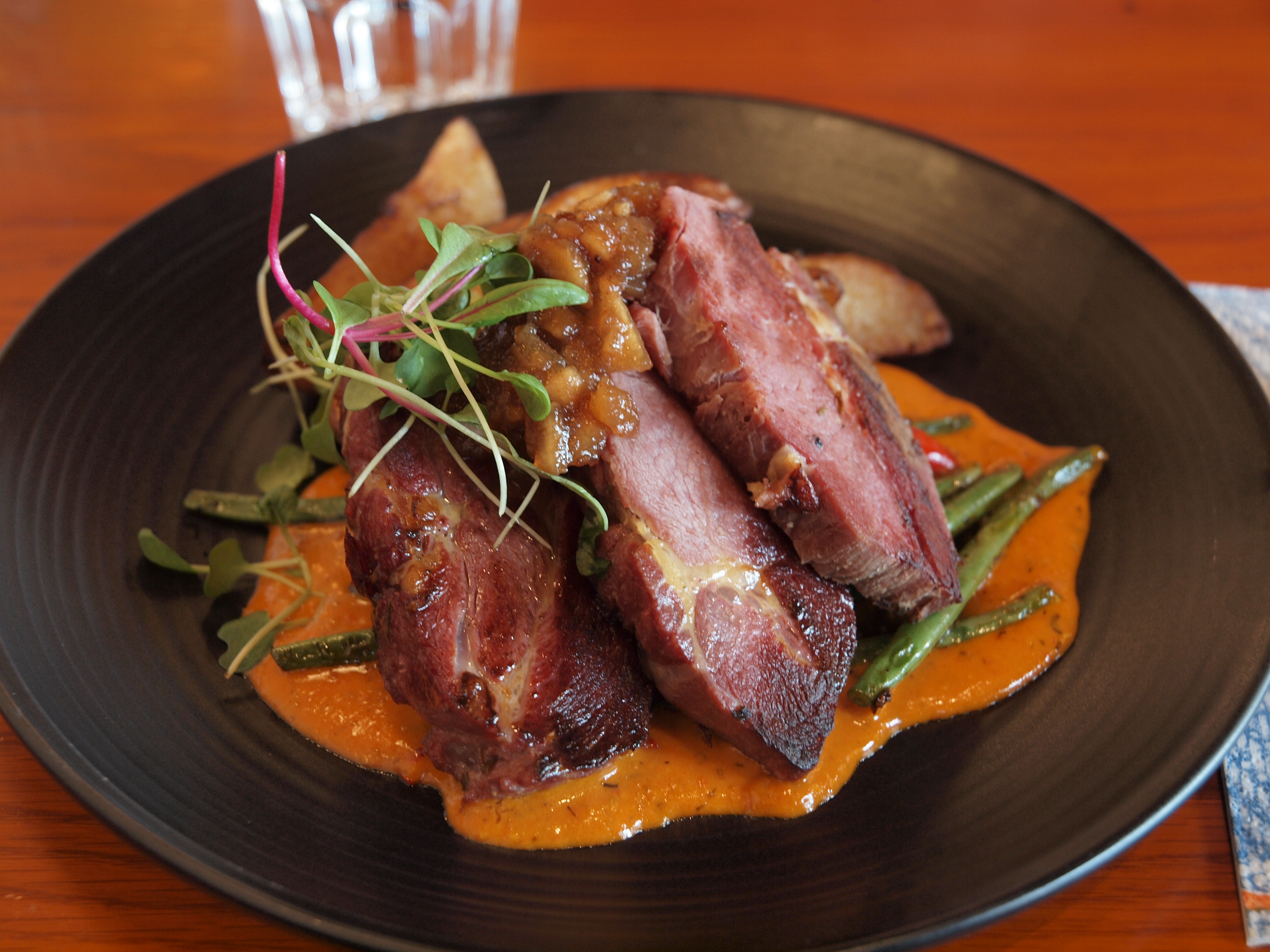 Wild Pork at restaurant Chico's, Helsinki, Finland: steaks of wild boar with smoked potatoes, with creamy gaucha sauce, apple chutney, sweet drop chilies, fried needle beans and spiced butter, along with a glass of water.